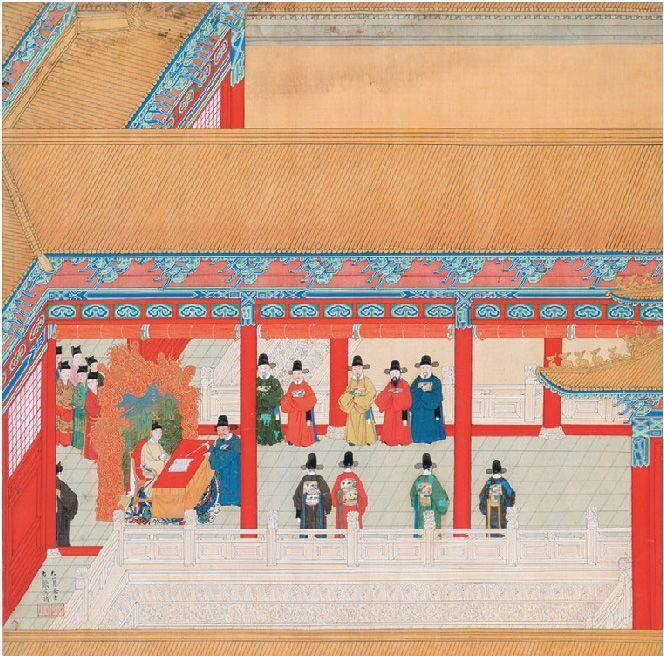 宦跡圖 - This painting is one of a series (now housed in the Palace Museum of Beijing) which portrays the career of the Ming-dynasty era Chinese official Xu Xianqing (徐顯卿). Xu was a native of Yixing (宜興 ; west of Lake Tai 太湖). He received his jinshi (進士) degree in 1568 and eventually became Vice-Minister of Personnel. His year of birth is unknown, although it is known that he died in 1602.